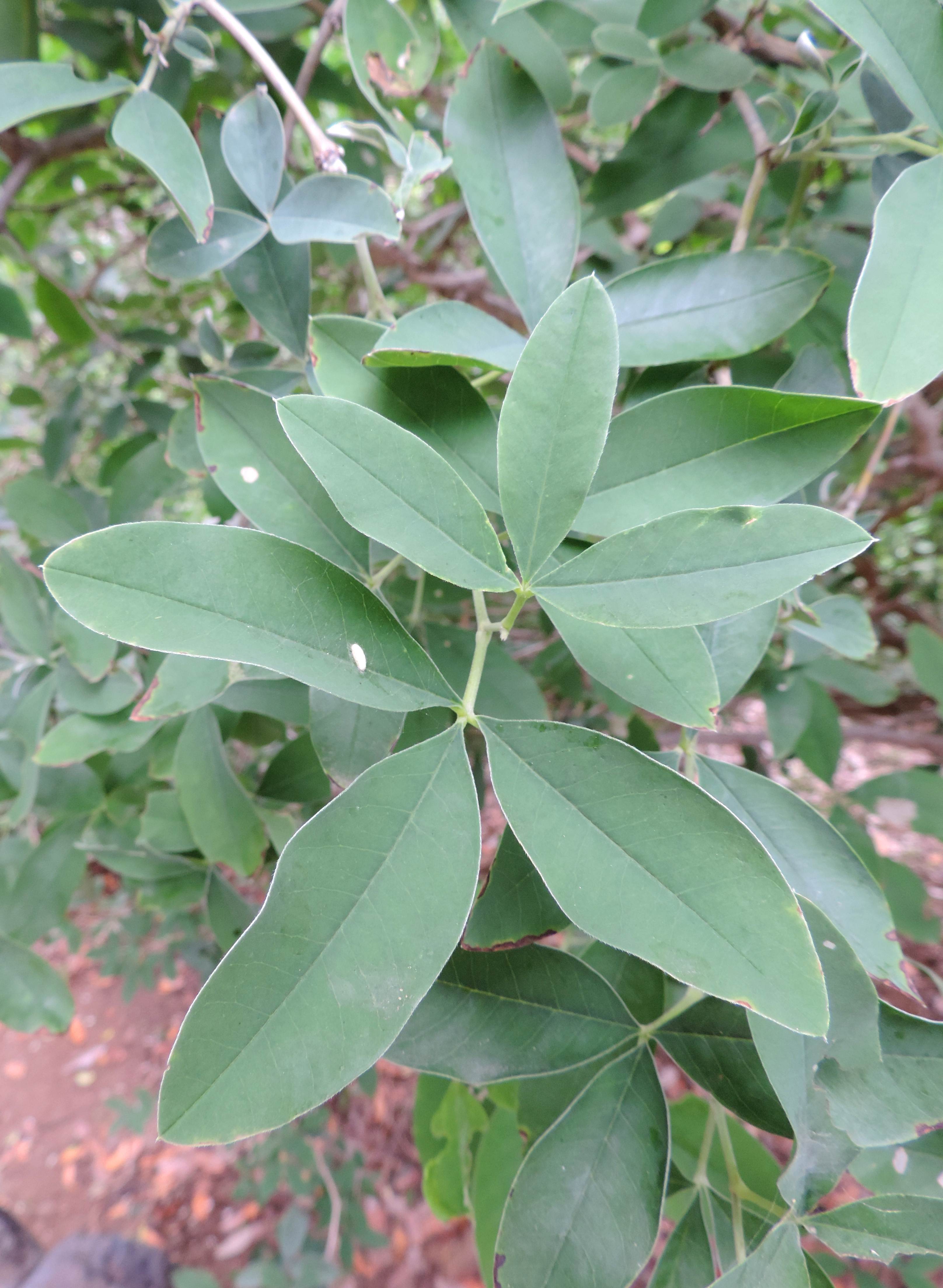 Anagyris latifolia in Jardín Botánico Canario Viera y Clavijo